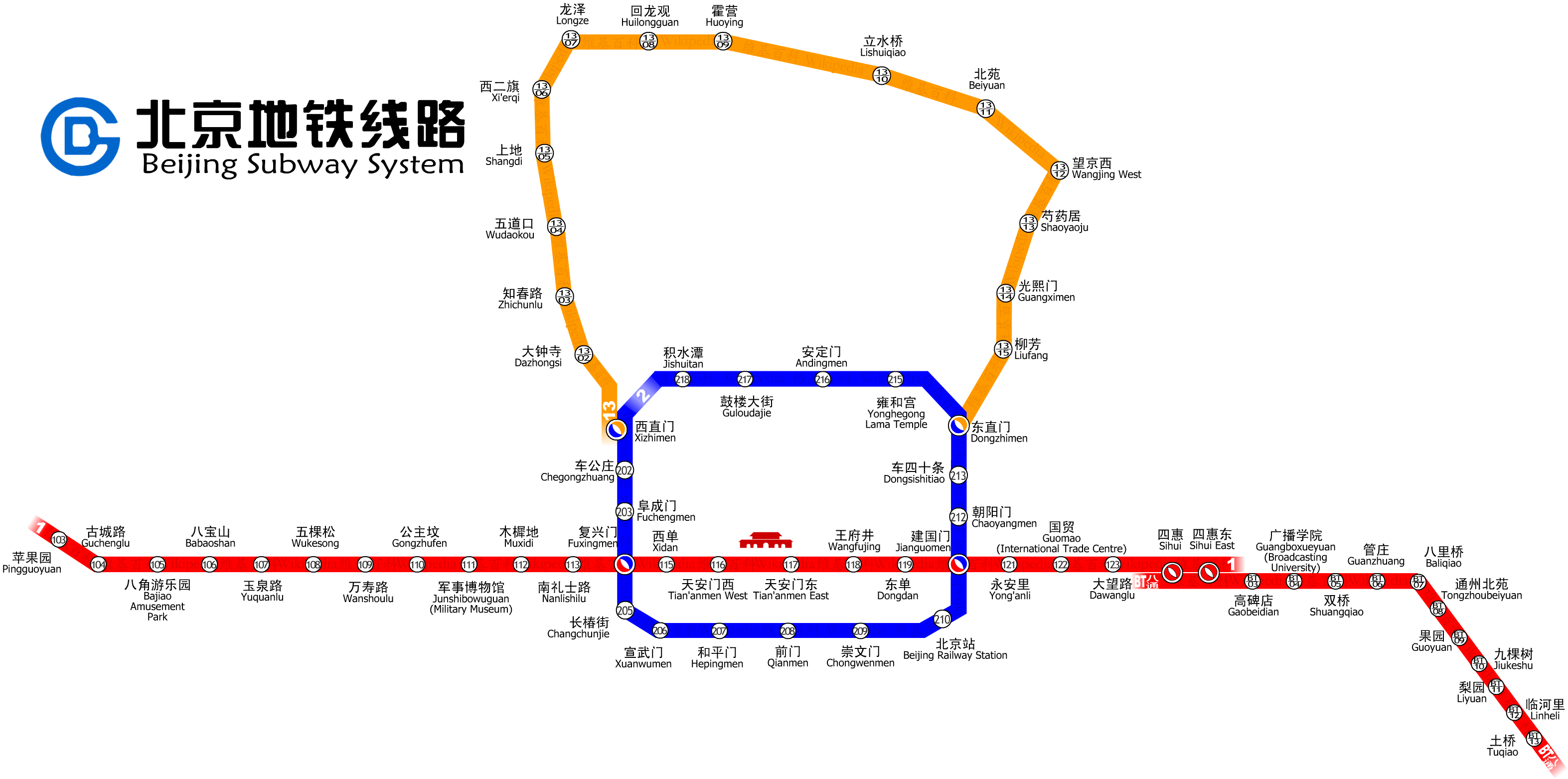 Beijing Subway System (as of 2006) 03:40, 19 February 2006 (UTC) 北京地铁线路（目前）03:40, 19 February 2006 (UTC) MAP IS NOT TO SCALE 本图不按比例 Note: Number 213 is incorrectly stated as 车四十条 (it should be 东四十条).